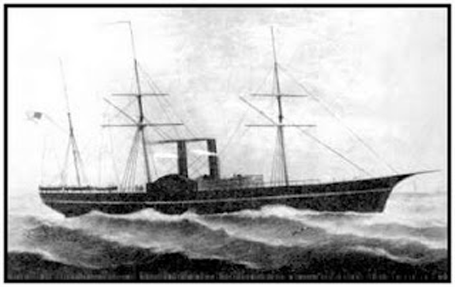 The Pacific Mail Steamship Company ship S.S. Golden Gate. It entered the San Francisco to Panama City service in November 1851. It was lost off Manzanillo, western Mexico, on July 27, 1862.